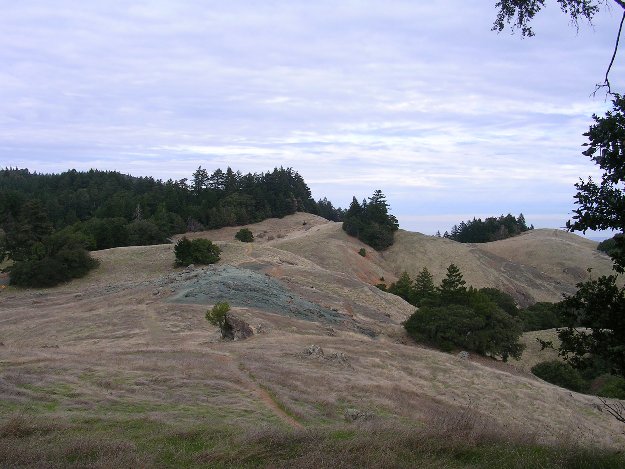 The woodlands and hills of the Bolinas Ridge west of Mount Tamalpais. Bolinas Ridge, east of Stinson Beach, California